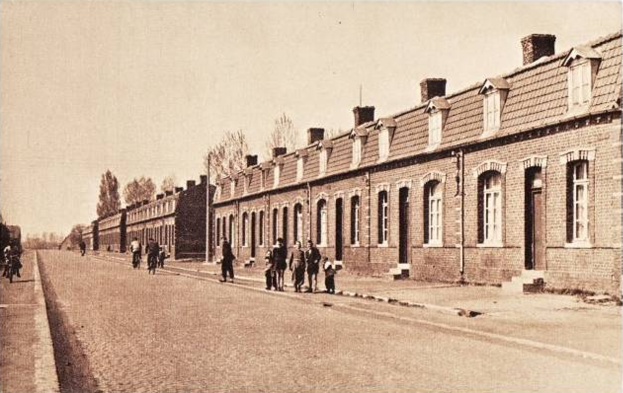 Somain, Nord-Pas-de-Calais, France.